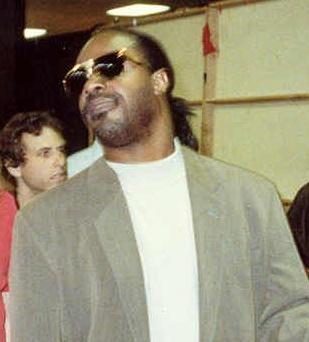 Stevie Wonder at a rehearsal for the Grammy Awardssteviewonder-1